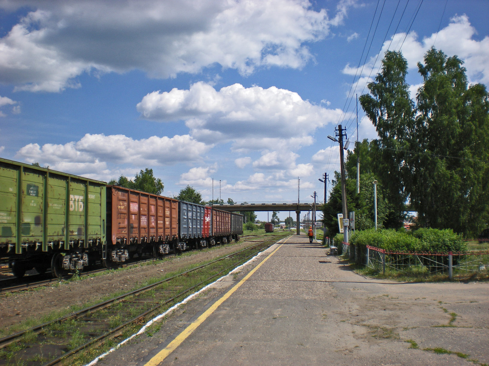 Uva-1 railway station, town of Uva, Udmurtia. On the platform Удмурт: Ува-1 станция, Ува, Удмуртия. Платформа вылаз